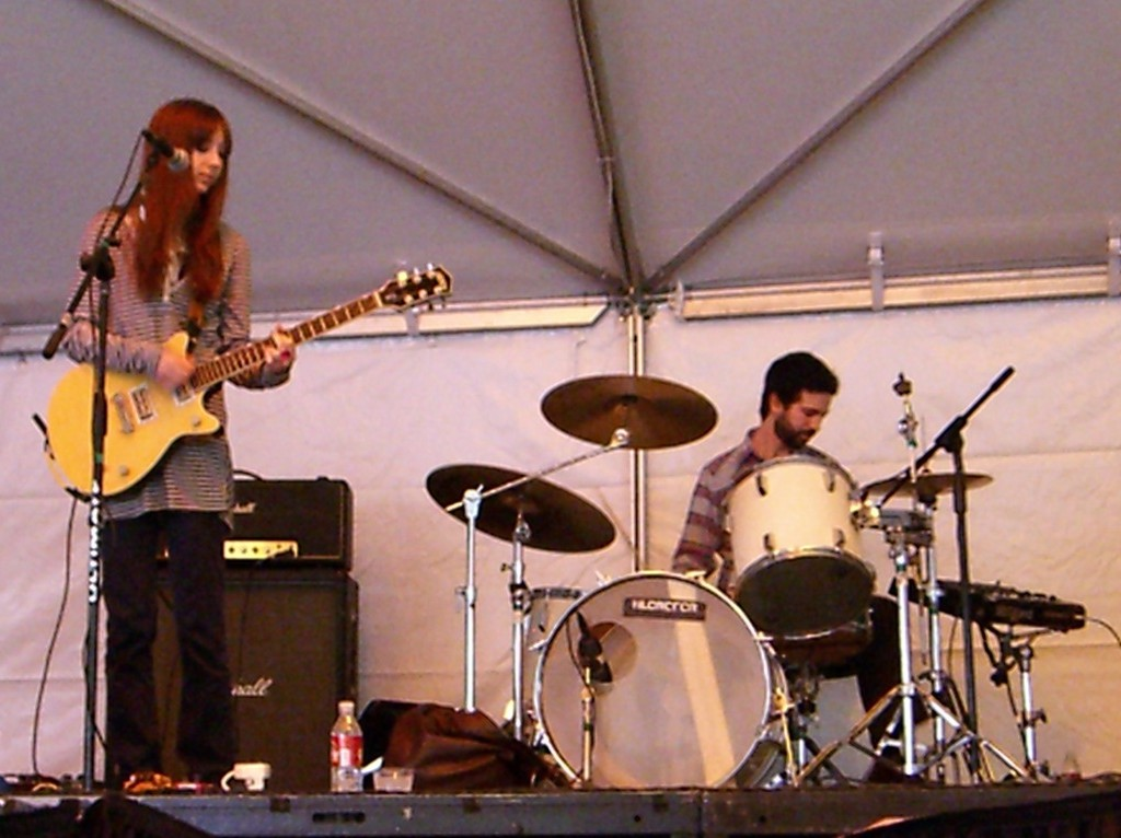 Giant Drag SXSW 2006 day show. She was kind of funny and kinda not.